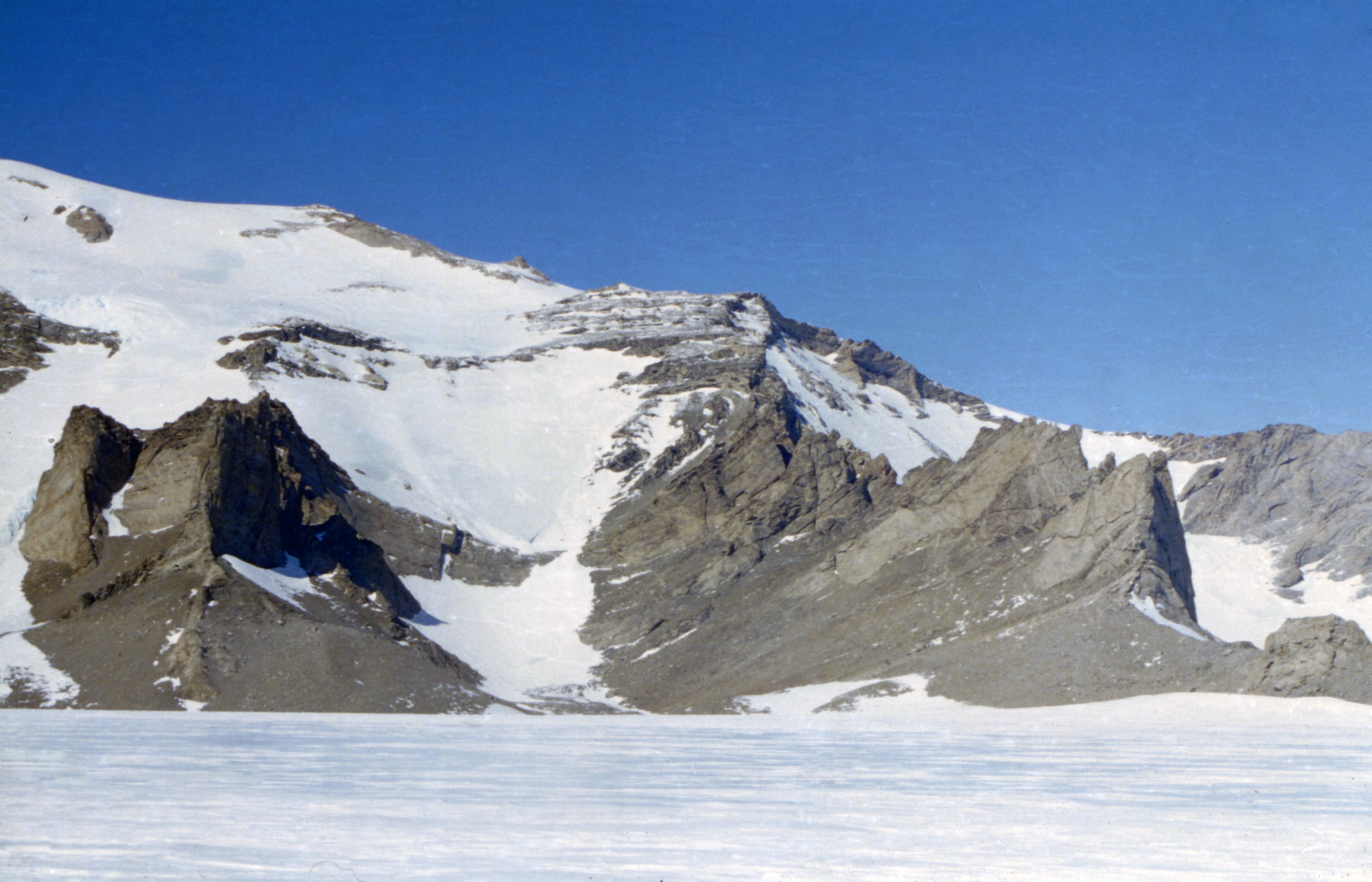 Large recumbent fold in gneisses of the NW flank of Risemedet, eastern Gjelsvik Mountains